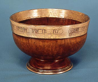 Mazer, Maplewood with silver-gilt mounts, Unmarked, around 1380 V&A Museum no. M.165-1914 The boss is engraved with the sacred monogram IHC [Jesus]. The mounts are engraved, 'Hold yowre tunge and say ye best and let yowre neyzbore sitte in rest hoe so lustyye God to plese let hys neyzbore lyve in ese' (Hold your tongue and say the best // And let your neighbour sit in rest // He is so eager to please God // He lets his neighbour live in ease). Verses like this, emphasising religious and moral duties, were considered appropriate for drinking vessels as a warning against indulgence. By the end of the 15th century, mazers were standard, inexpensive drinking vessels. One load of 200 imported into Exeter in 1493 cost only 6 shillings and sixpence. Mazers were turned from maple wood burrs (knots) which were very hard, and had an attractive speckled grain when polished. The name itself derives from the Old German `masar', meaning `spot'.